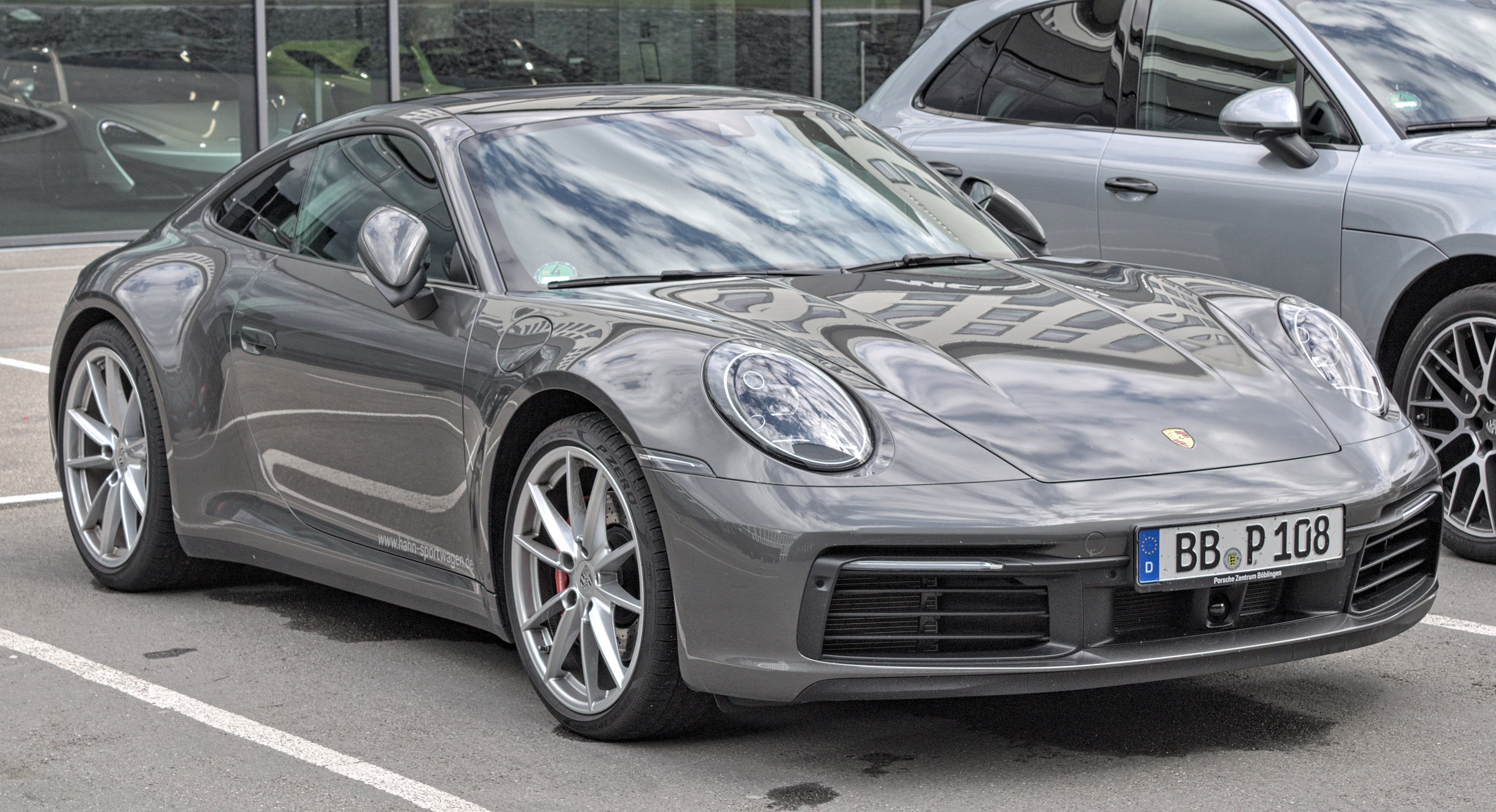 Porsche_992_Carrera_4S in Böblingen